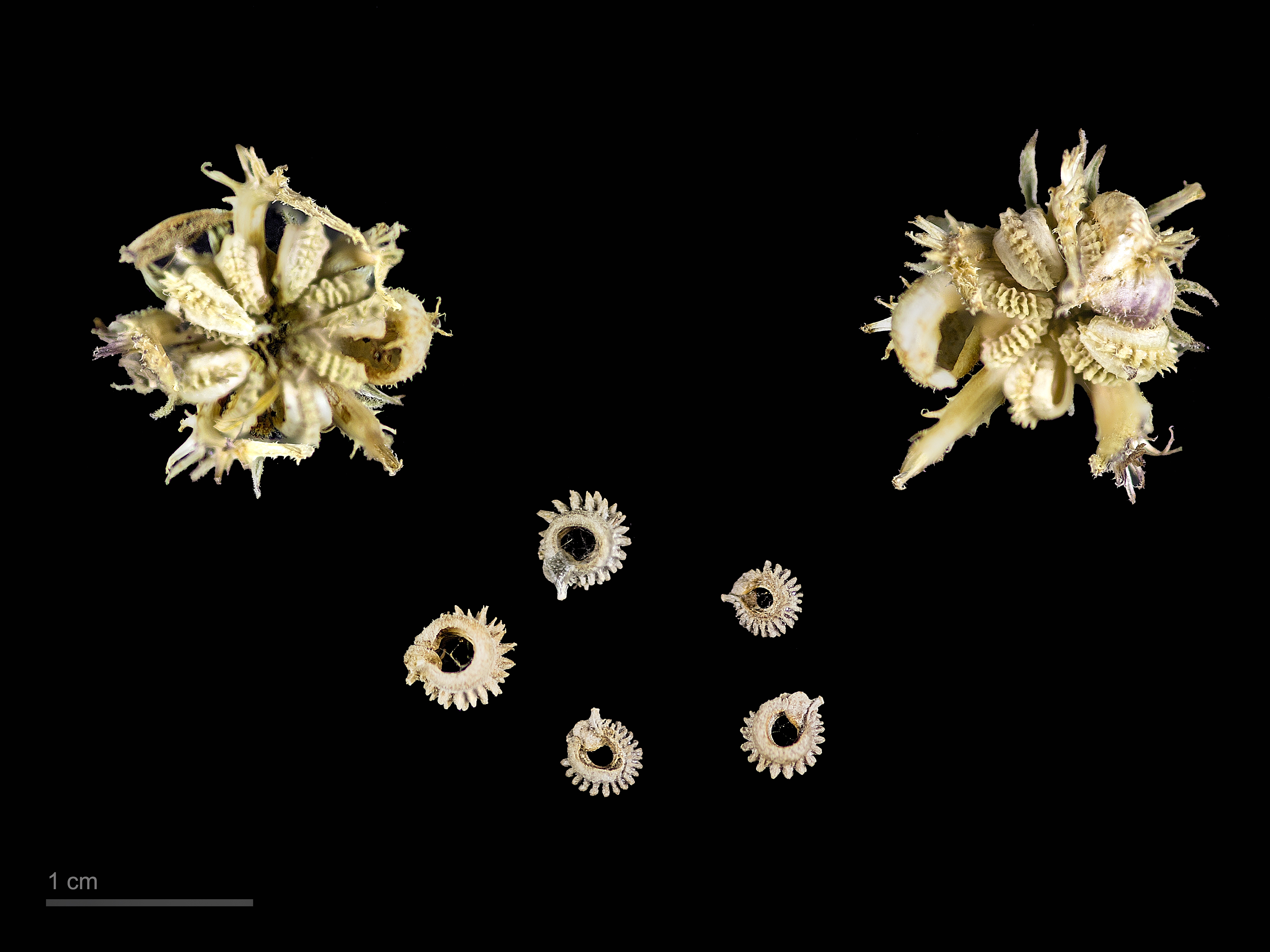 field marigold , fruits and seeds